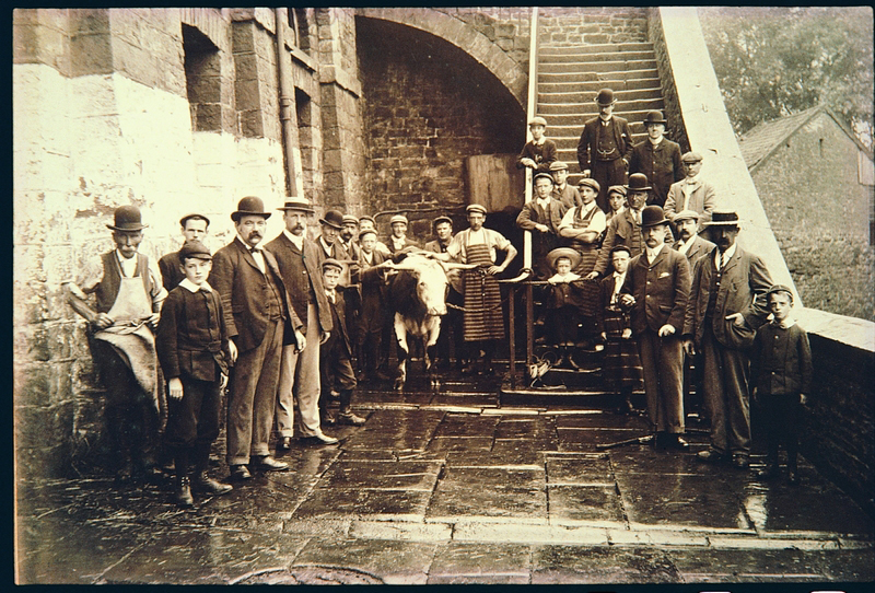 Monmouth Slaughter houses in August 1902 during preparations for the coronation ox-roasting. Monmouth Museum Identification Number: M986